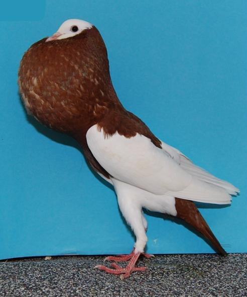 Elsterkröpfer rot